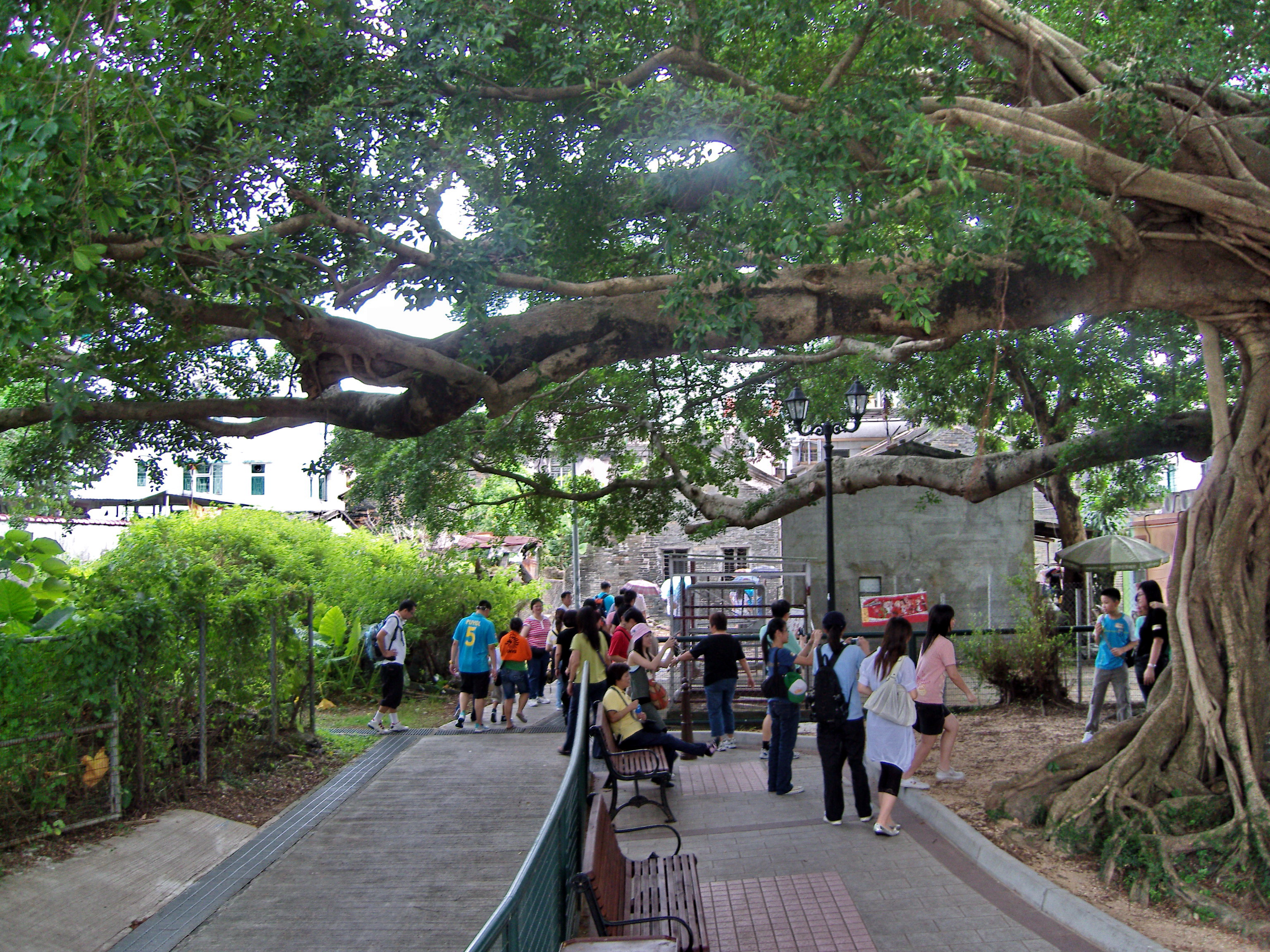 Kam Tin Tree House (An old banyan tree grew bigger and bigger besides the stone house, and after centuries, there're only part of brick walls and a granite doorframe left under the huge tree.) in Shui Mei Village, Kam Tin, Hong Kong.